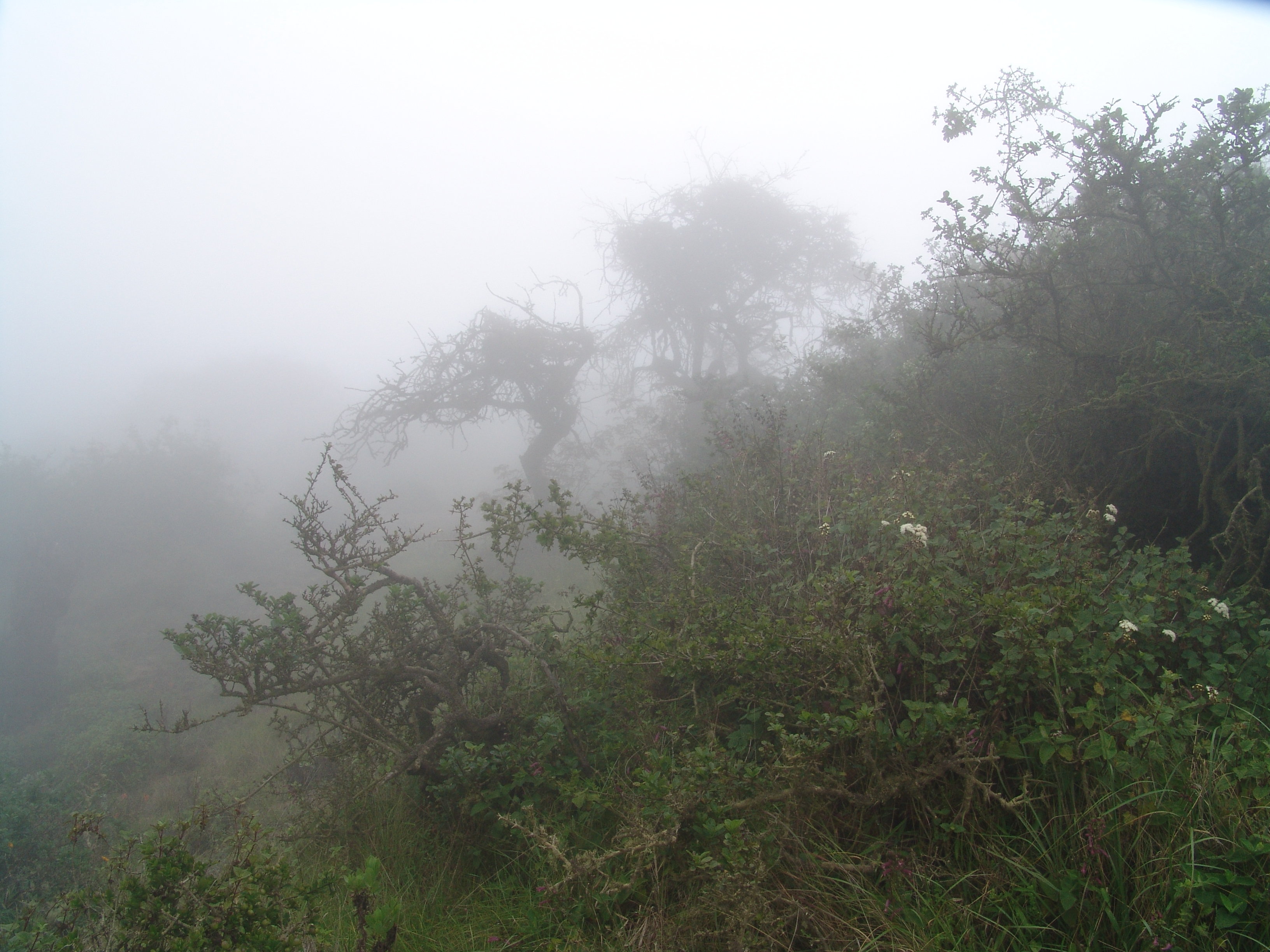 In the Peruvian Coastal Desert, an archipelago of fog oases, locally called lomas, are centers of biodiversity and of past human activity.